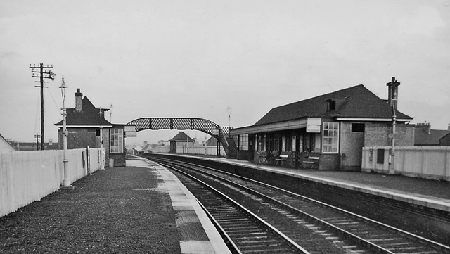 Bellshill (ex-Caledonian Railway) Station. View eastward, towards Holytown and Edinburgh; ex-CR Glasgow (Central) - Holytown - Edinburgh (Princes St.) main line (electrified 1974).